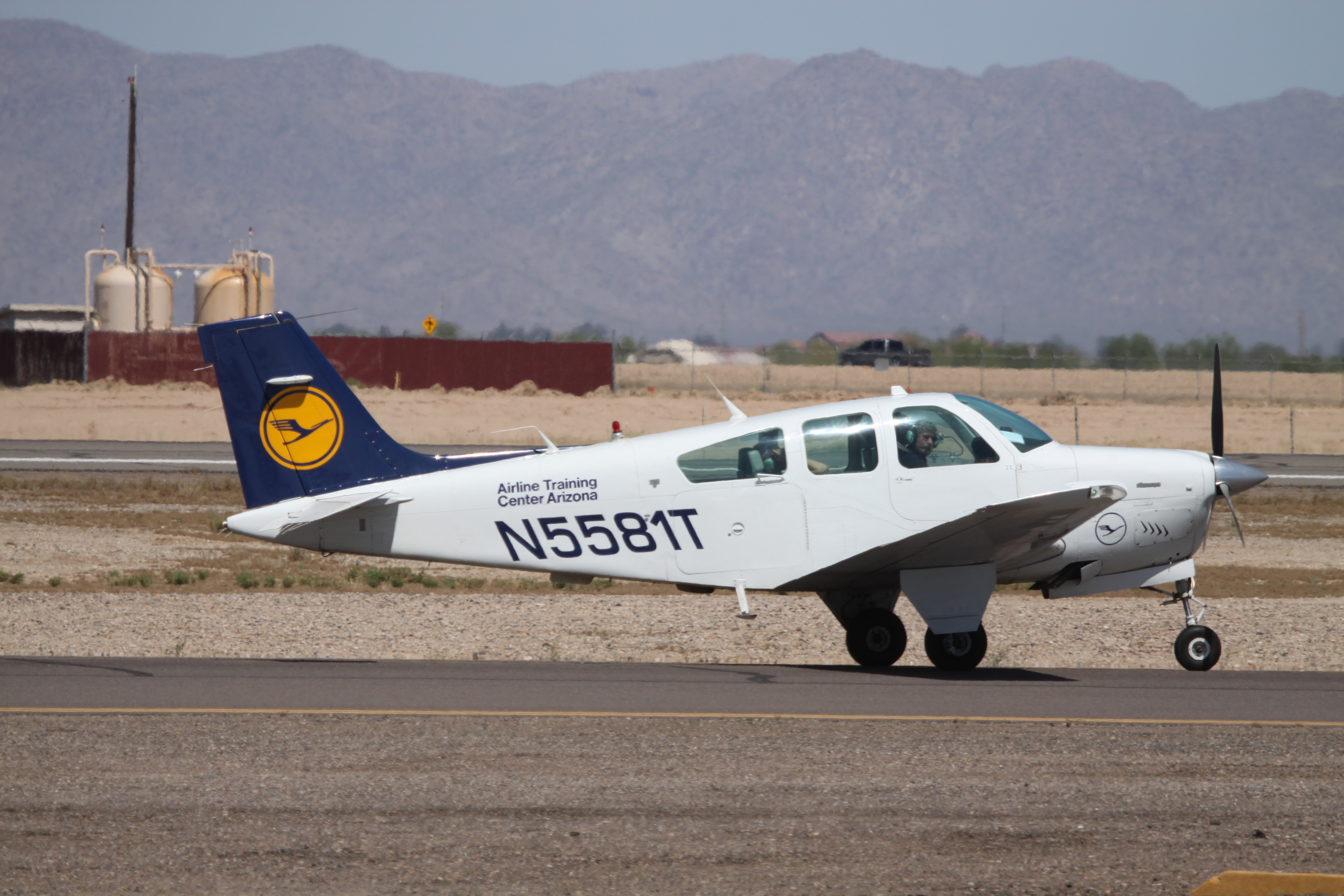 At Goodyear